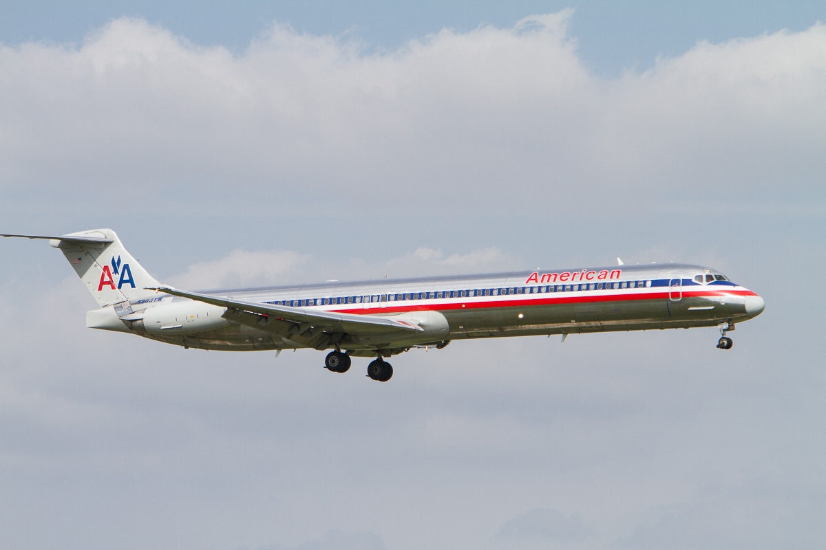 Airplane photo taken from Founder’s Plaza at DFW Airport. For additional photos see: DFW Airport Airplane Photos - April 2014. Photo (cc). If using photo, please credit: Photo courtesy Grant Wickes. In picture: American Airlines MD-83. N983TW. Flight arriving on Saturday April 12, 2014. Photo taken with Canon 7D using 70-200L IS lens with 1.4 extender. Picture by Grant Wickes principal of Wickpoint Management Services and VP Marketing System ID. airplanephotography #dfwairport #americanairlines #boeing